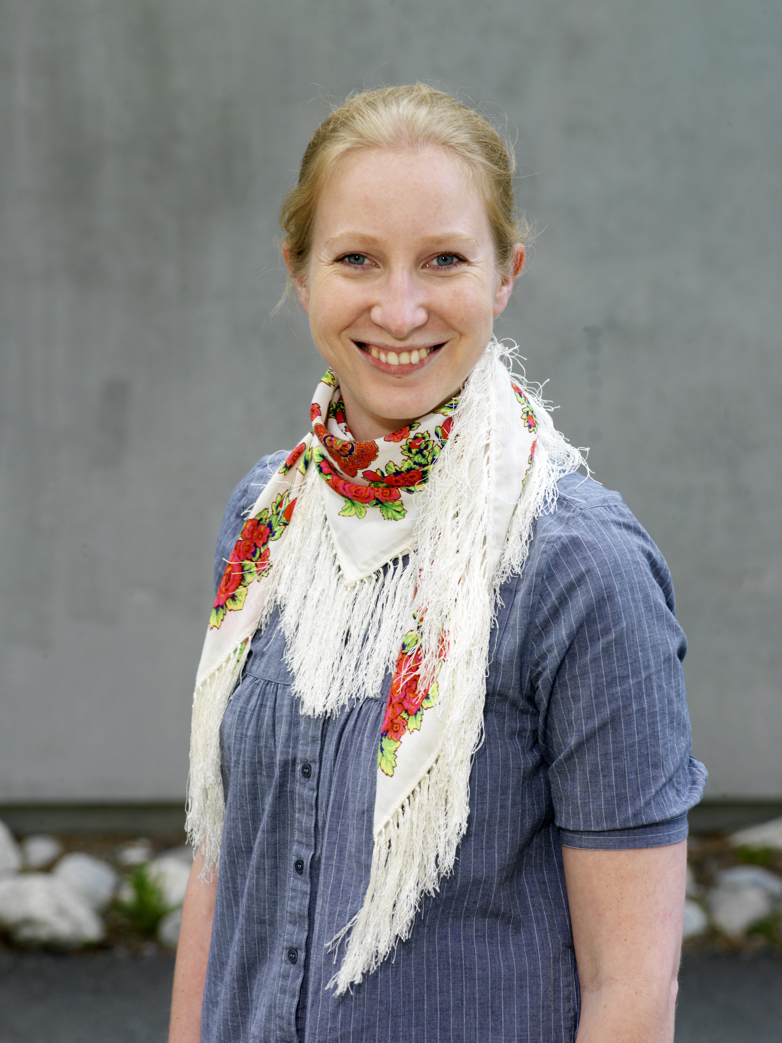 Ellinor Scheffer, member of the Committee for the Swedish Green Party.